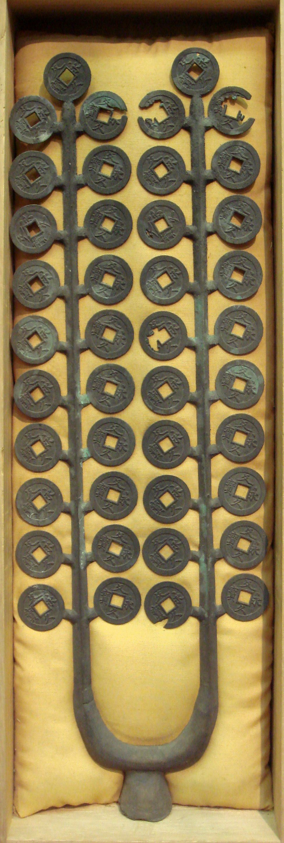 Branched (Edasen 枝銭) Mon coins of the Kaei period.